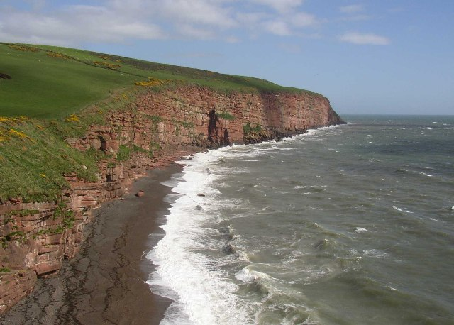 View of South Head from the coastal path north of Fleswick Beach. Allocated to the viewpoint square as the subject is over 1km away and in three squares! (taken using telephoto).This is one of the few stretches of coastline where there are cliffs of New Red Sandstone.